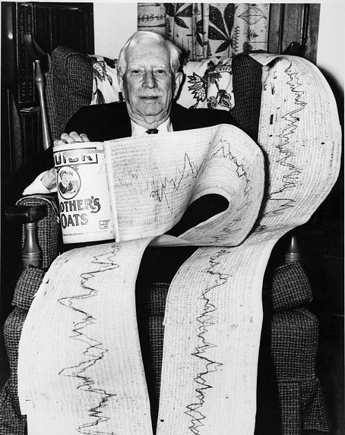 Astrophysicist and fifth Secretary of the Smithsonian Institution (1928-1944) Charles Greeley Abbot sitting in a chair with printouts of solar observations connected to a Oatmeal container